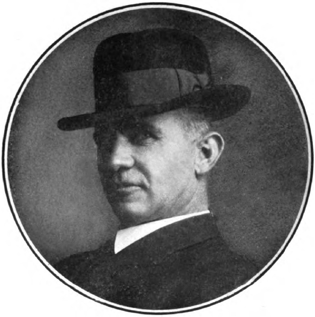 Wilfred Taft "W. T." Webb (March 22, 1864 – December 20, 1938), American politician who served twice as member of the Arizona Territorial Legislature (1903, 1905). In 1889, was charged and tried for involvement with the Wham Paymaster robbery.